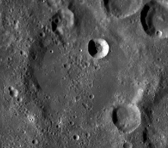 LRO-WAC image of Gilbert crater